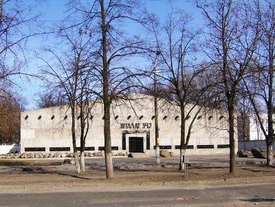 Stalag 342 in Maladzechna (Belarus)